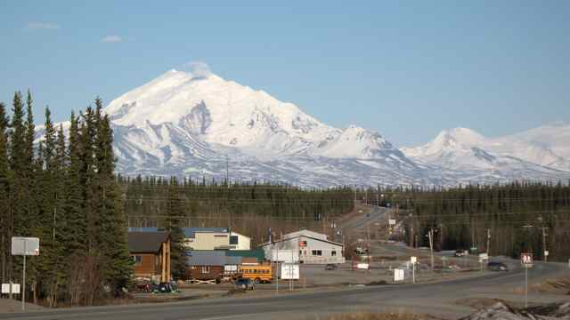 Photo of downtown Glennallen, Alaska, Mount Drum in the distance.